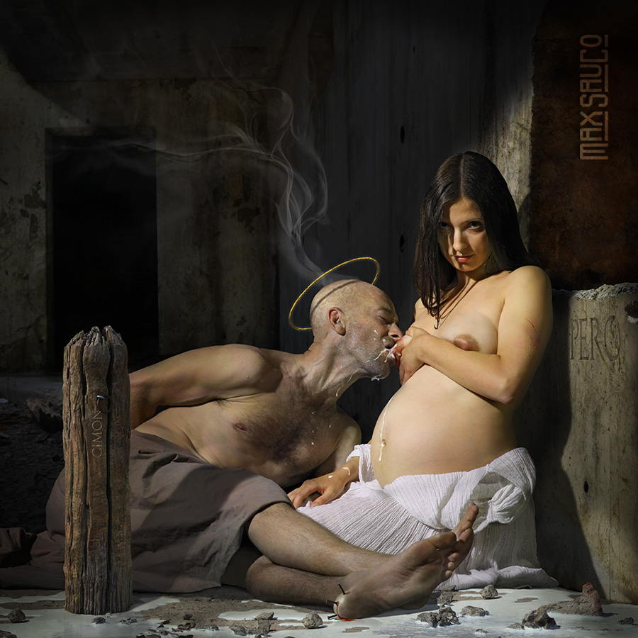 roman Charity